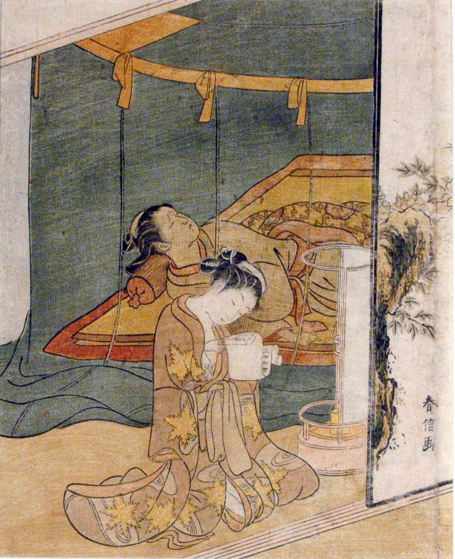 Accession Number: 1957.80 Display Artist: Suzuki Harunobu Display Title: Young woman reading a letter at night while another sleeps behind a mosquito net Translation(s): Mujer Joven Leyendo una Carta Mientras Duerme su Madre Creation Date: 1768-1770 Medium: Woodblock Height: 10 5/16 in. Width: 8 5/16 in. Display Dimensions: 10 5/16 in. x 8 5/16 in. (26.19 cm x 21.11 cm) Credit Line: Bequest of Mrs. Cora Timken Burnett Label Copy: "One of the pioneering artists of Ukiyo-e, Harunobu perfected the art of the full-color print, which was called nishiki-e or brocade print. Here, with his typically subdued color palette and lyrical composition he has depicted a quiet drama in an interior scene. A young woman loosely clad in an autumnal kimono intently reads a letter, while an older woman lies sleeping in the background. A sliding screen used to partition the bedroom is painted with elements of a rocky landscape and is signed with the name of the artist." Label Copy (Spanish): "Harunobu, uno de los pioneros del Ukiyo-e perfeccion el arte del grabado a todo color llamado nishiki-e o grabado de brocado. Aqu, con su tpica paleta de colores tenues y composicin lrica represent un drama taciturno en un espacio interior. Una joven vestida en un holgado kimono de otoo, lee una carta atentamente mientras una mujer mayor duerme en el fondo. Una pantalla corrediza utilizada para dividir la recmara est pintada con los elementos de un paisaje rocoso y firmada con el nombre del artista." Collection: The San Diego Museum of Art